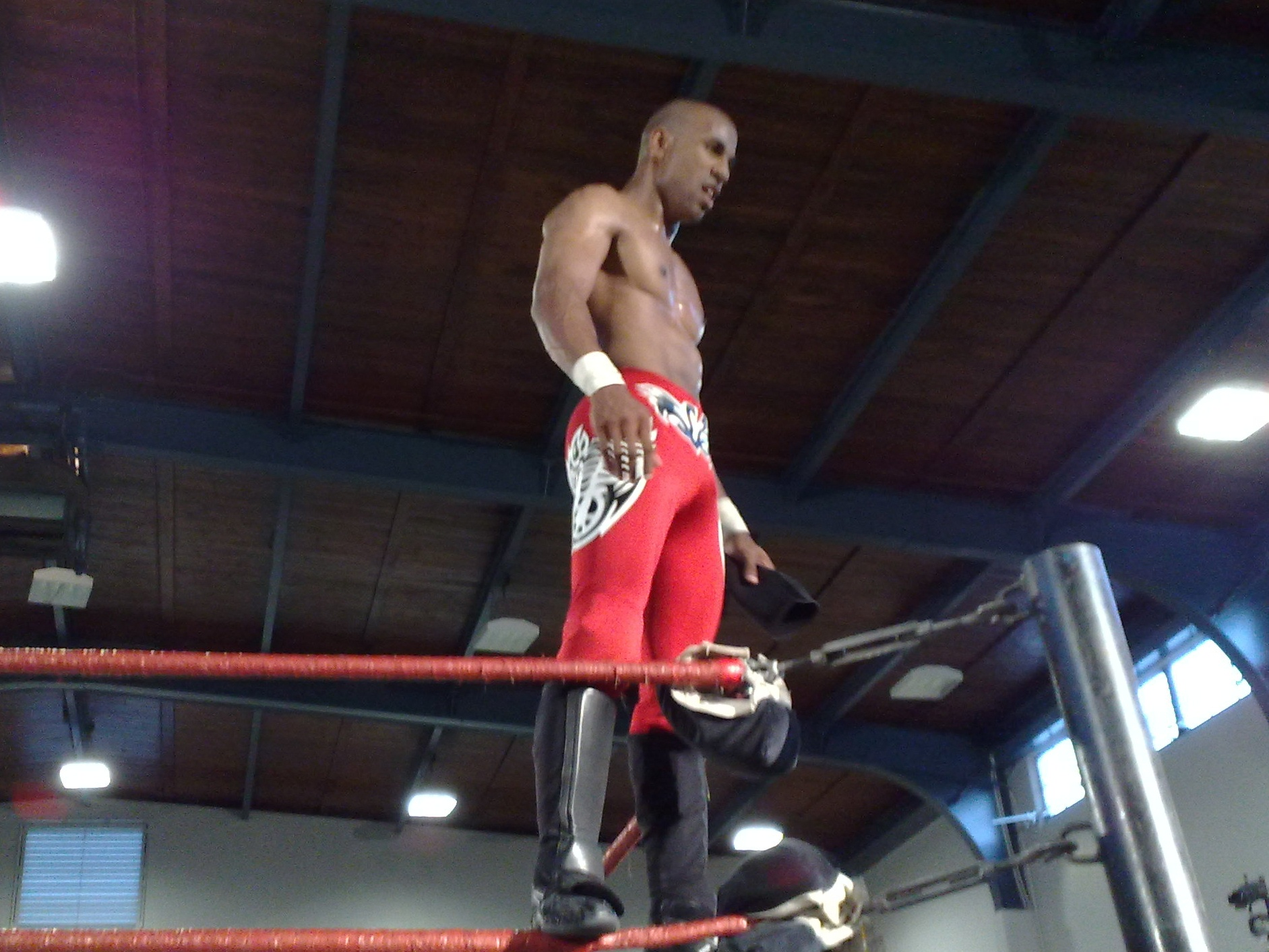 Professional wrestler Scorpio Sky (real name Schuyler Andrews) standing on the turnbuckles at Pro Wrestling Guerrilla's DDT4 Night 2 show on May 18, 2008.